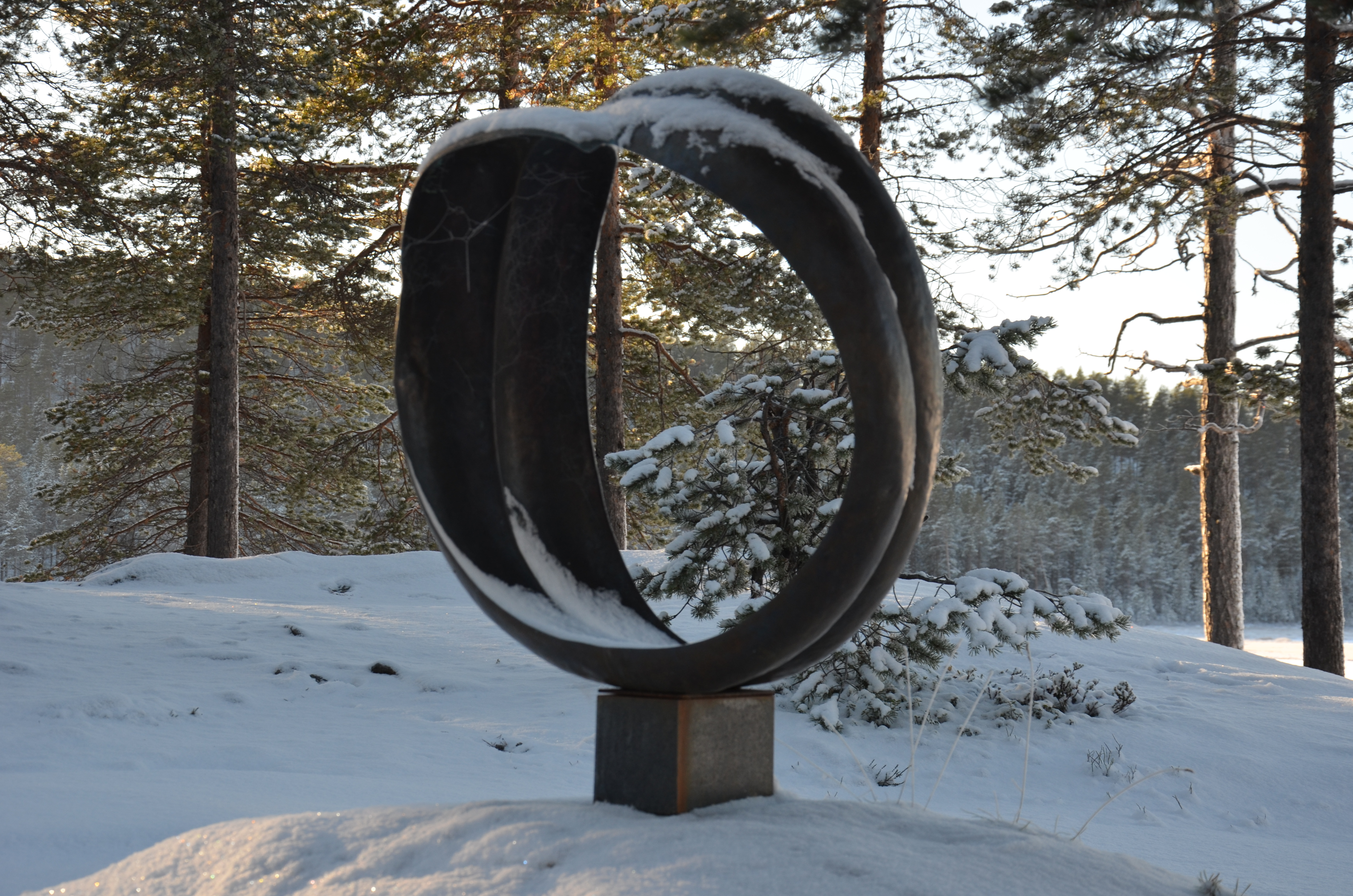 Max Lundströms Hornkänsla